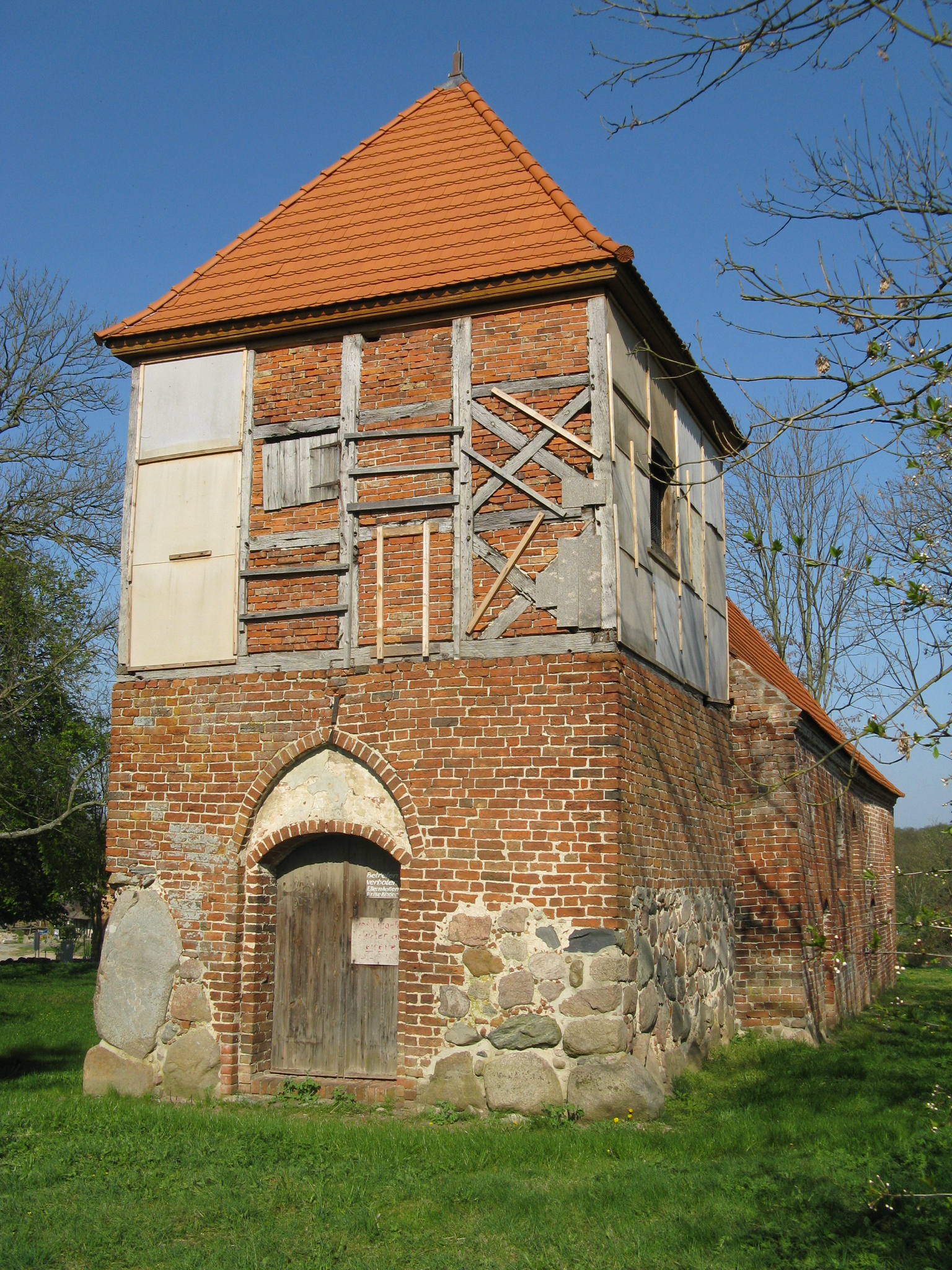 Church in Müsselmow, disctrict Parchim, Mecklenburg-Vorpommern, Germany